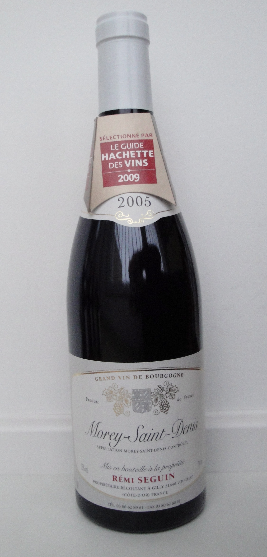 A bottle of Morey-Saint-Denis 2005 from Remi Seguin with a "Guide Hachette" sign.